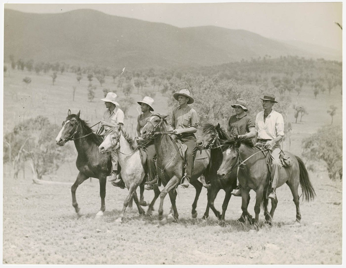 Drovers, Roseneath sheep station, Tenterfield, 1942 Notes: Find more detailed information about this photographic collection: .au/item/itemDetailPaged.aspx?itemID=411925 Search for more great images in the State Library's collections: .au/search/SimpleSearch.aspx From the collection of the State Library of New South Wales